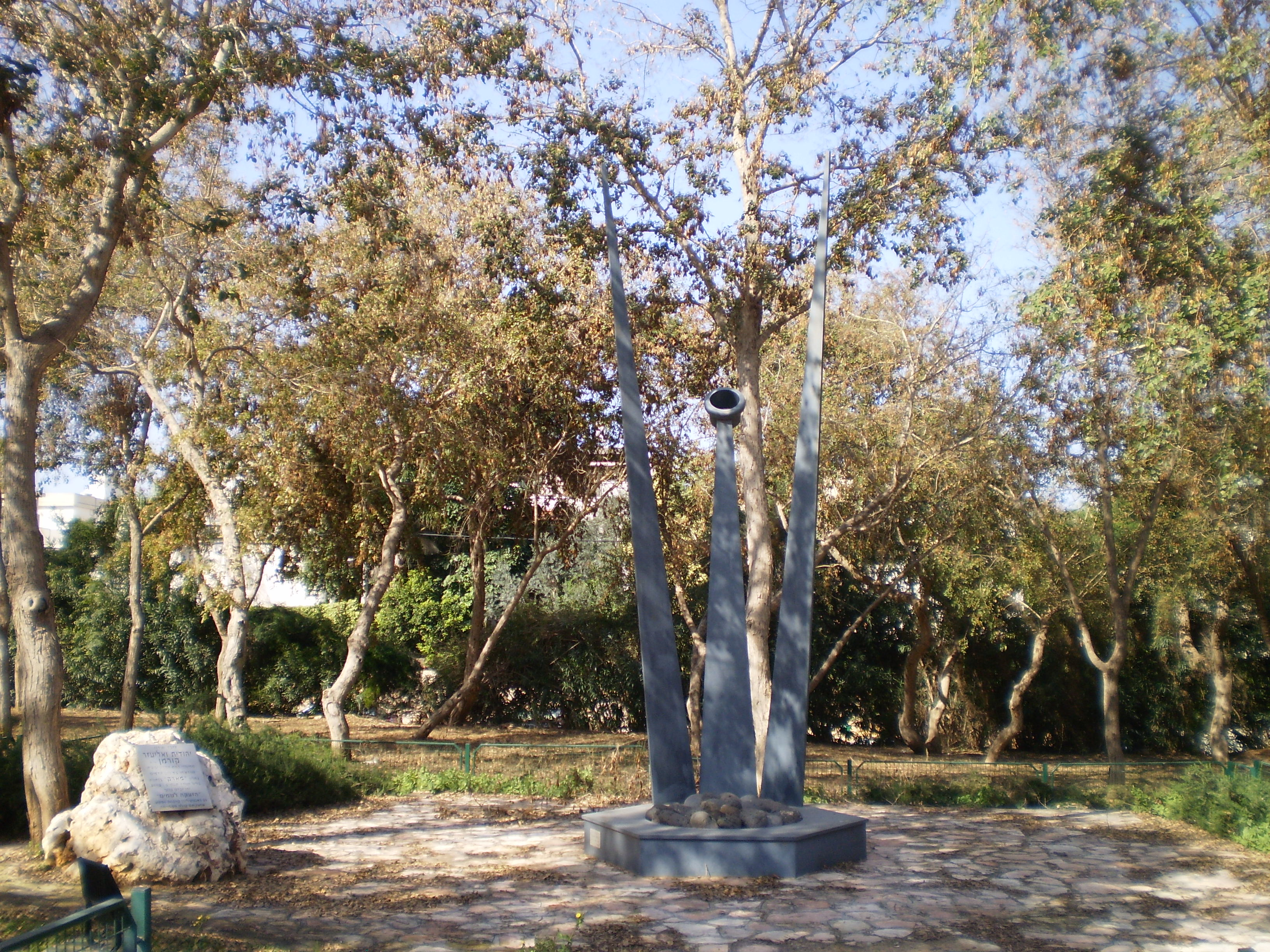 Passover massacre memorial - Ramat Hasharon